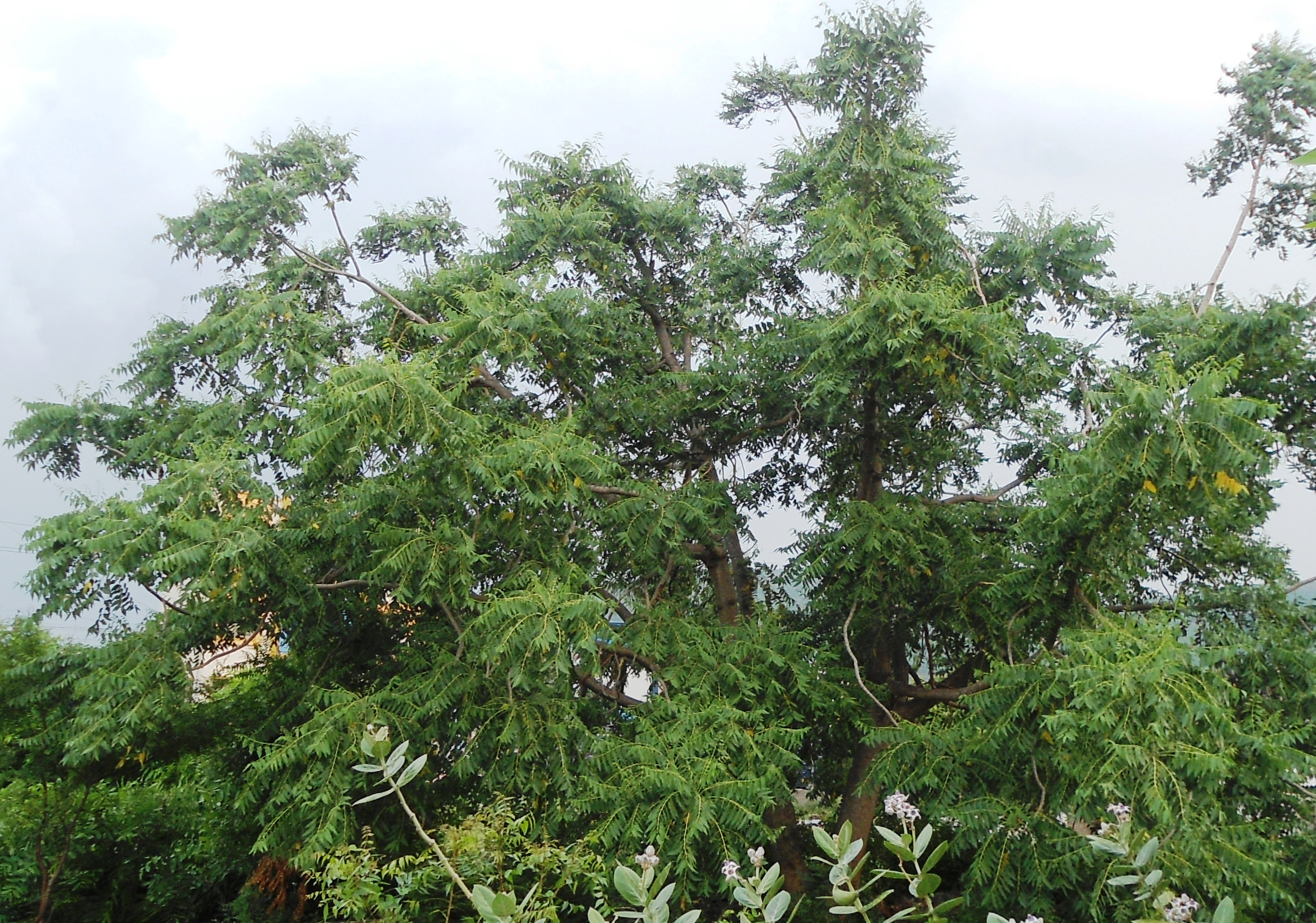 Ailanthus excelsa tree at Madhurawada in Visakhapatnam